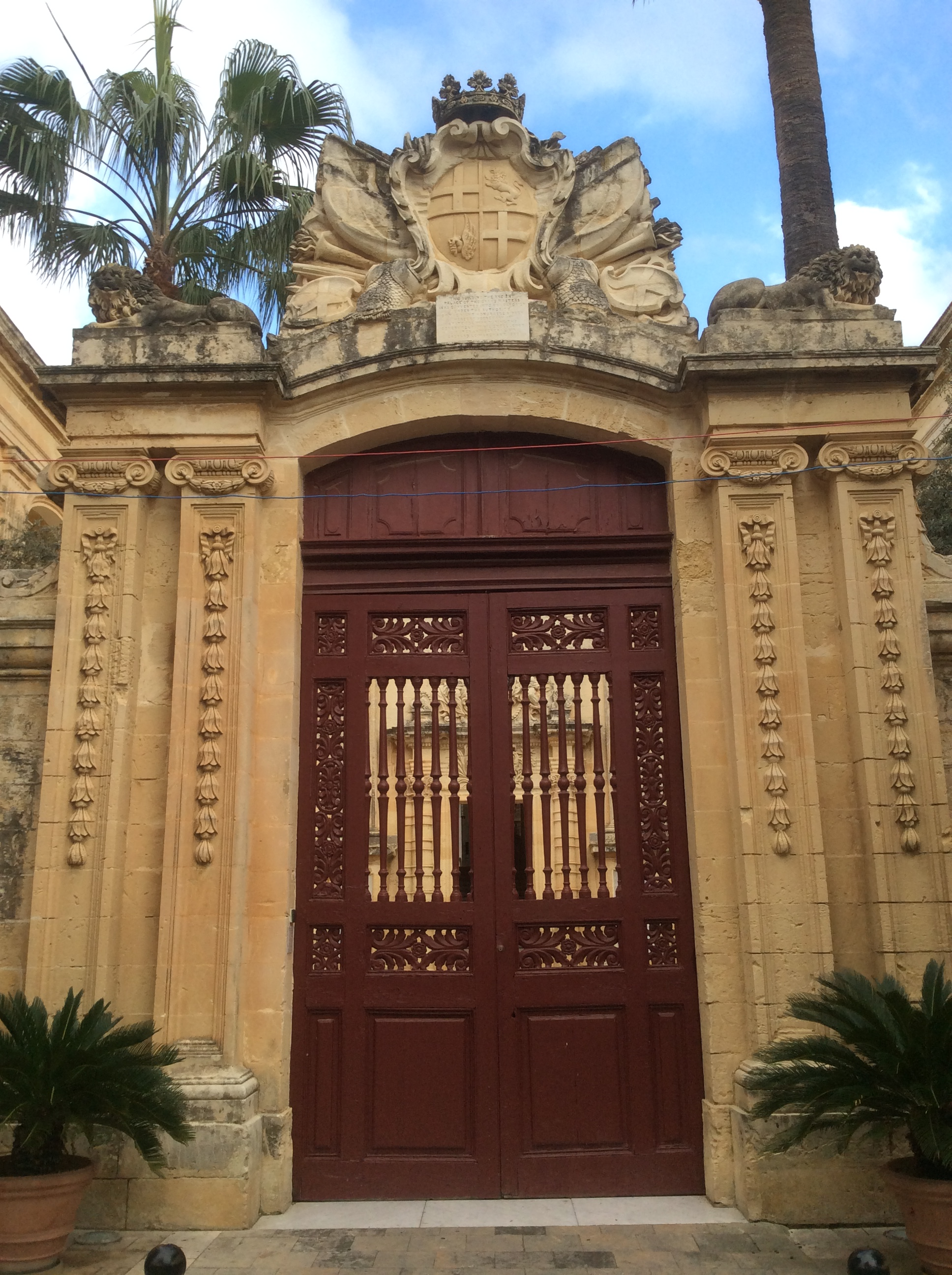 Vilhena Triumphal Gate